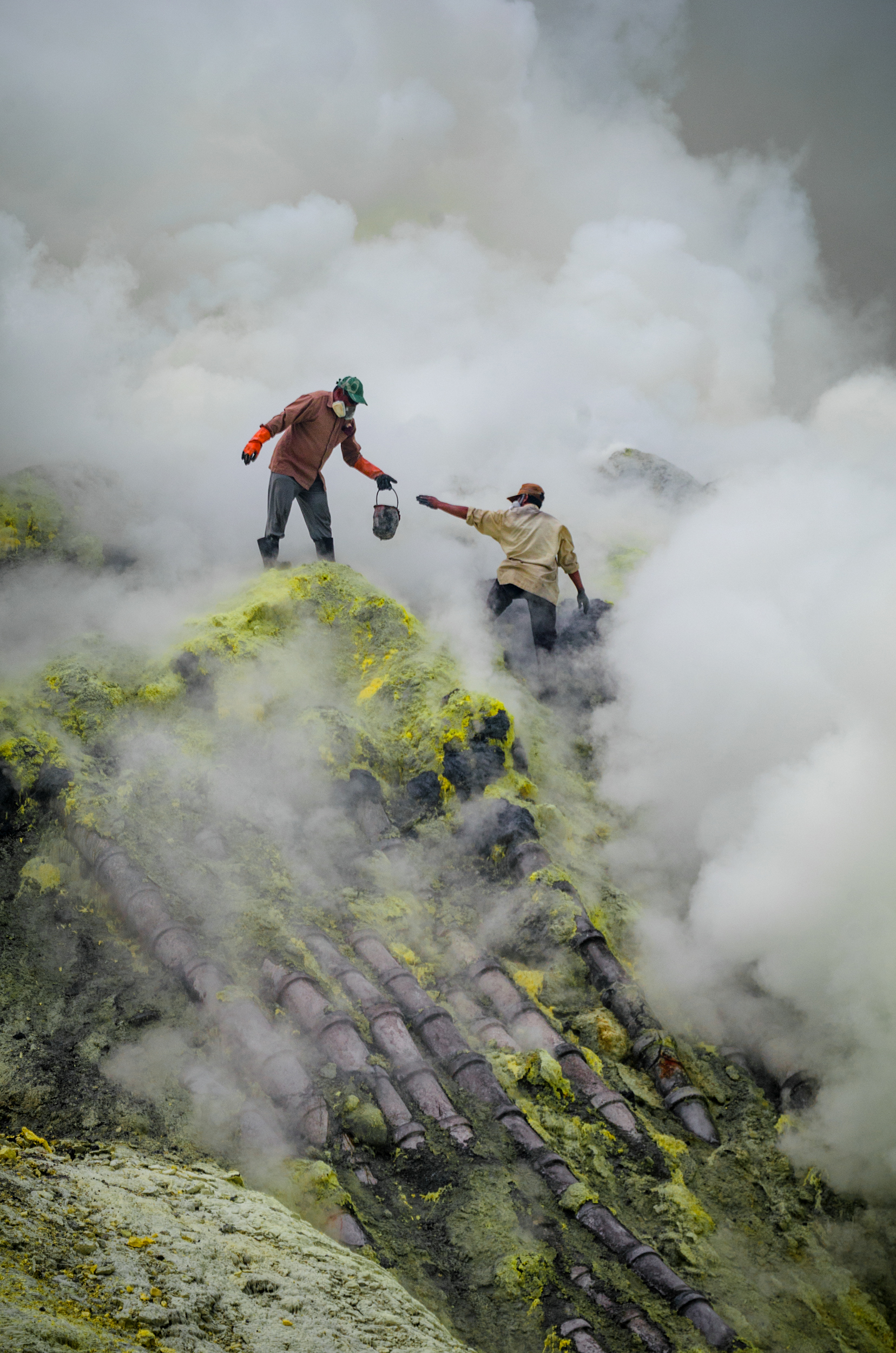 Traditional sulfur mining at Ijen Volcano, East Java, Indonesia. This image shows the dangerous and rugged conditions the miners face, including toxic smoke and high drops, as well as their lack of protective equipment. The pipes over which they are standing serve to guide sulfur vapors and condense them, thereby easing (well, relatively at least) production. What looks like clouds or steam is actually highly concentrated hydrogen sulphide and sulphur dioxide gases.[1]